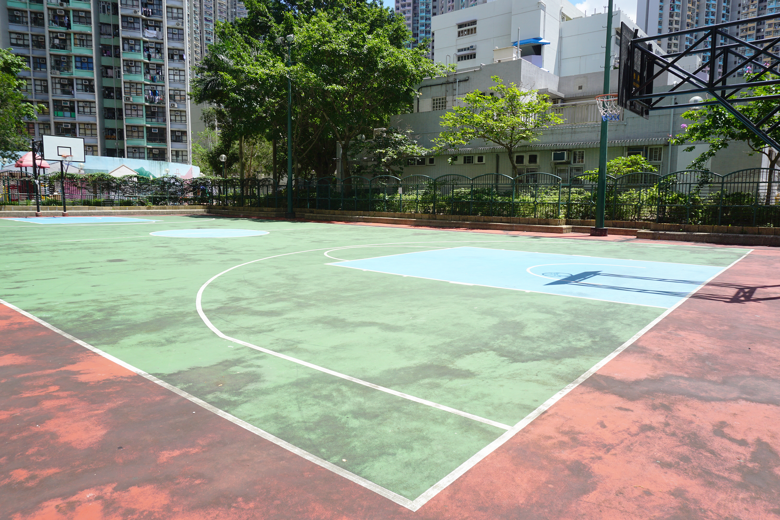 Tin Yiu Estate in Tin Shui Wai, Hong Kong.